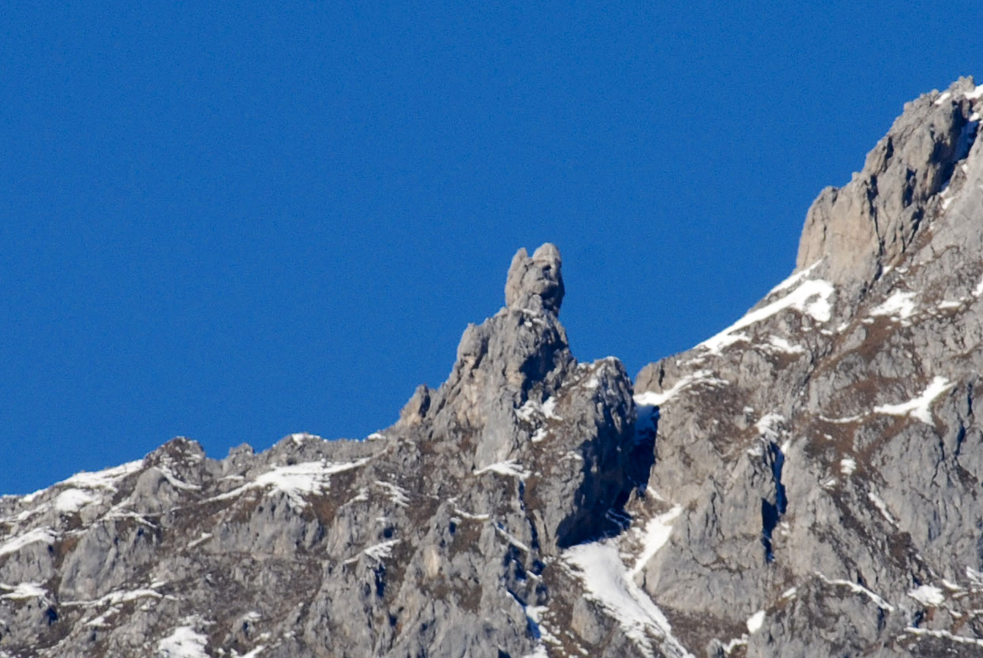 Frau Hitt mountain, Innsbruck, Tirol, Austria Photographed 2006-12-27 by myself Veitmueller 11:50, 27 December 2006 (UTC)